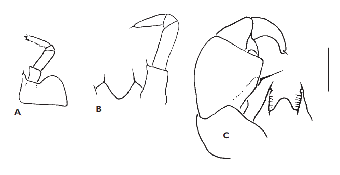 Glomeris troglokabyliana limbs and telopod A) leg 17; B) leg 18; C) leg 19 (telopod), caudal (rear) view. – Scale bar: 0.3 mm